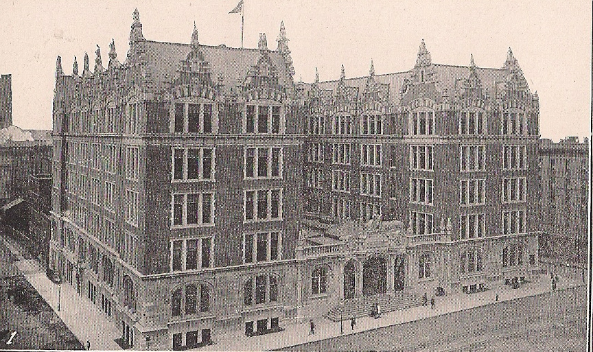 A photo of Dewitt Clinton High School in the early 20th century